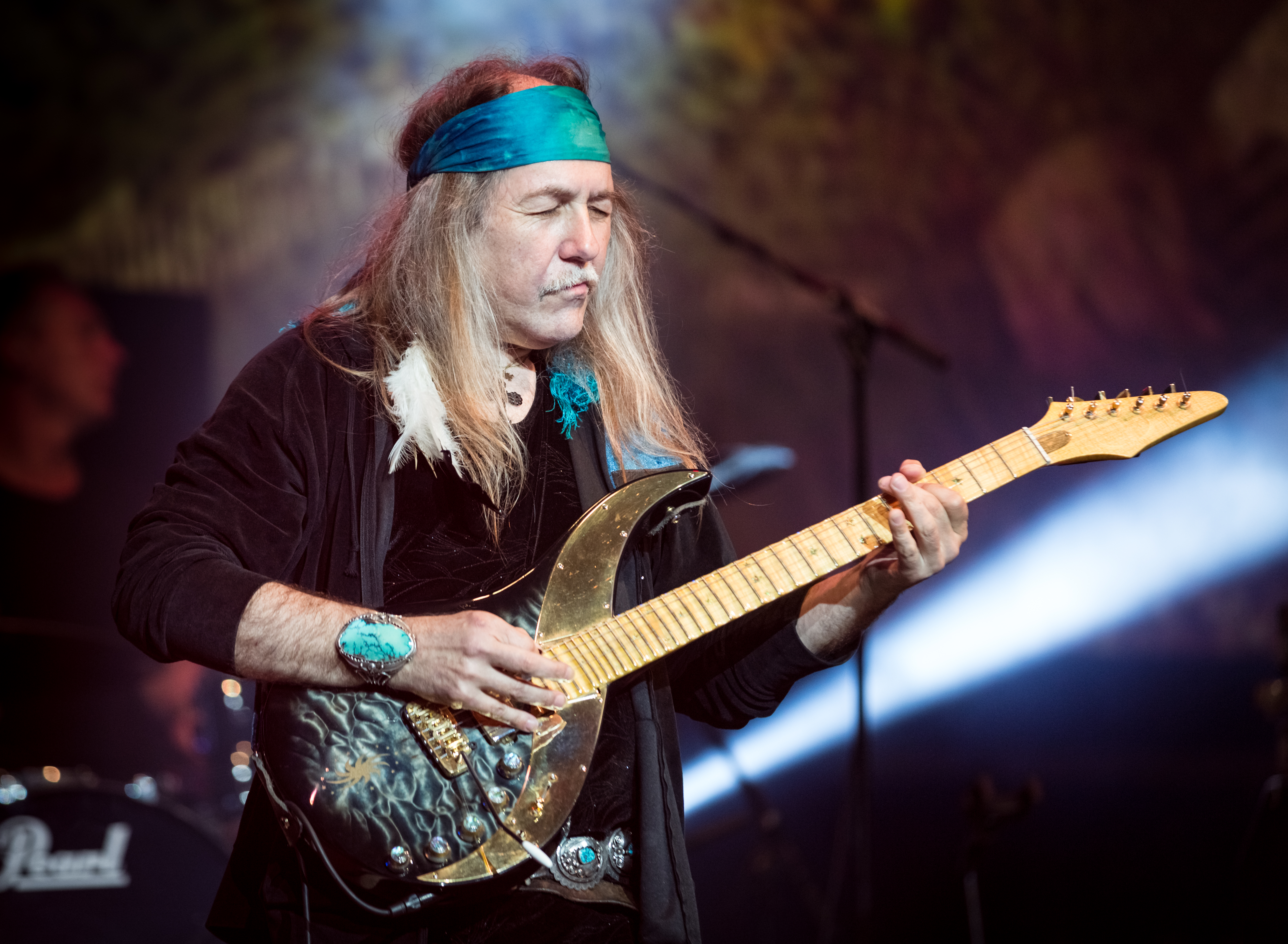 Uli Jon Roth - Wacken Open Air 2015